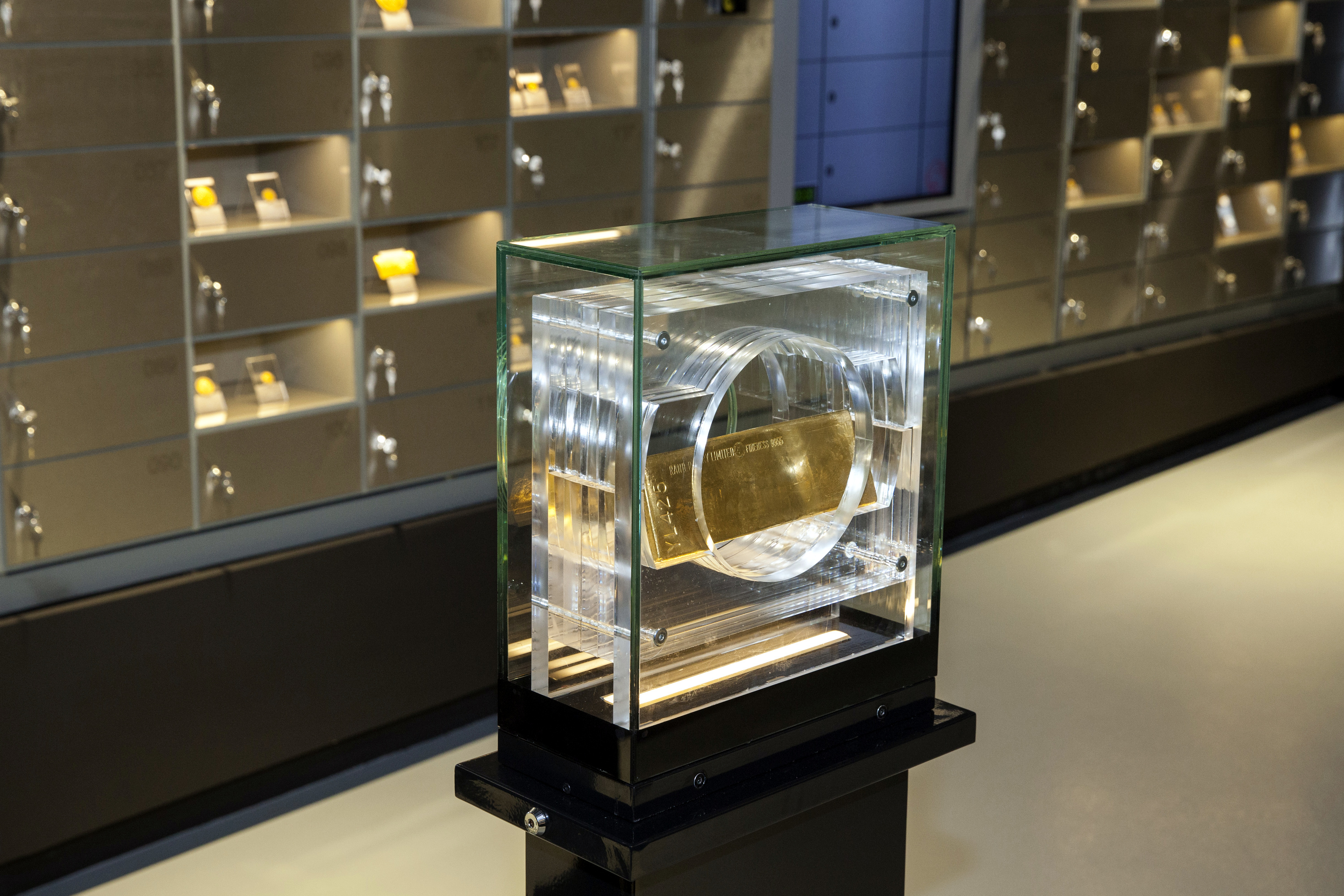 400-troy-ounce 995.5 fine gold bar in Centrum Pieniądza NBP im. Sławomira S. Skrzypka,Warsaw, Poland